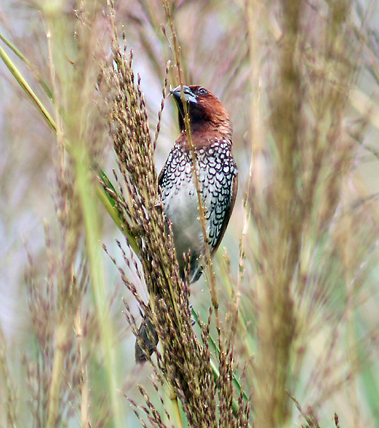 Scaly-breasted Munia in Kolkata, West Bengal, India.